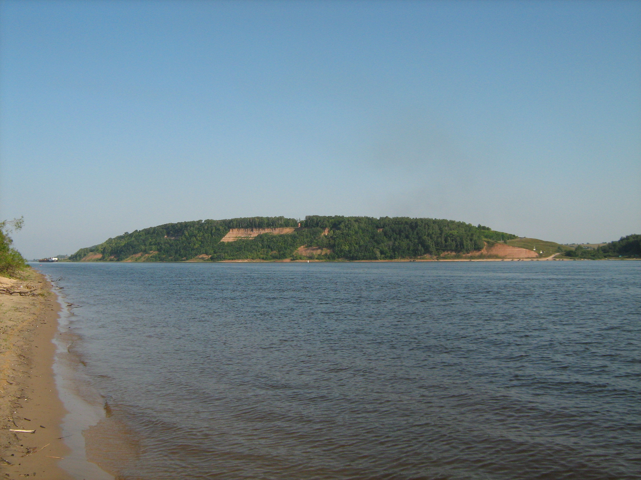 Zimenki Hill (on the south side of the Volga) seen from the Kstovo Beach (the north side of the river)